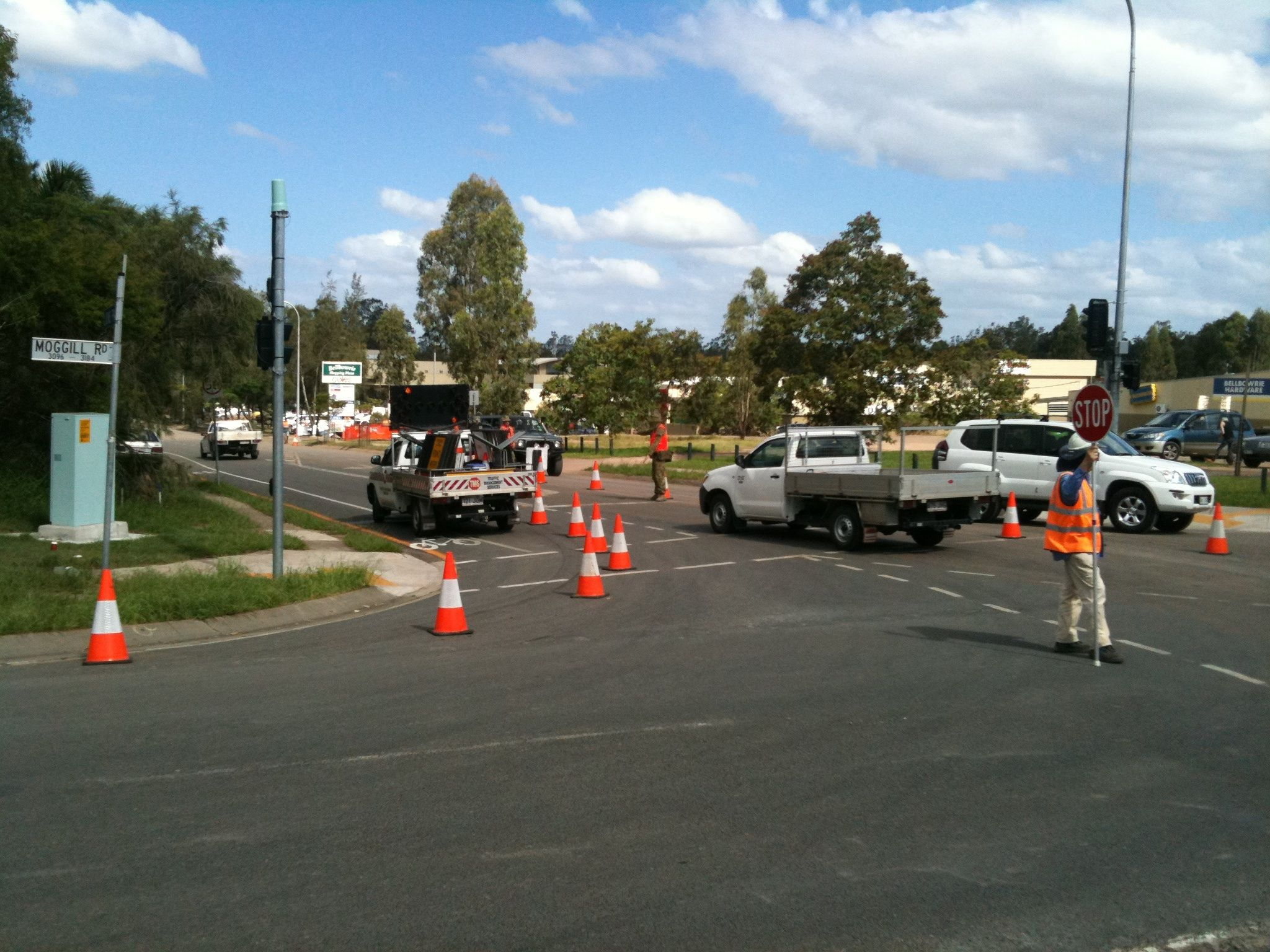 Traffic is being limited to clean up vehicles.